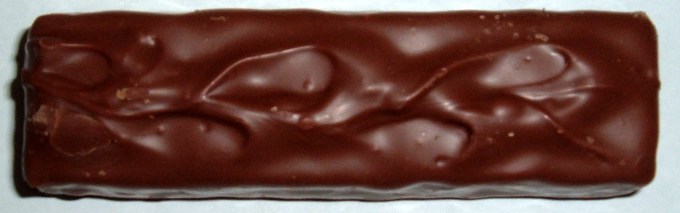 SnickersPurchased Feb. 2005 in Atlanta, GA, USA